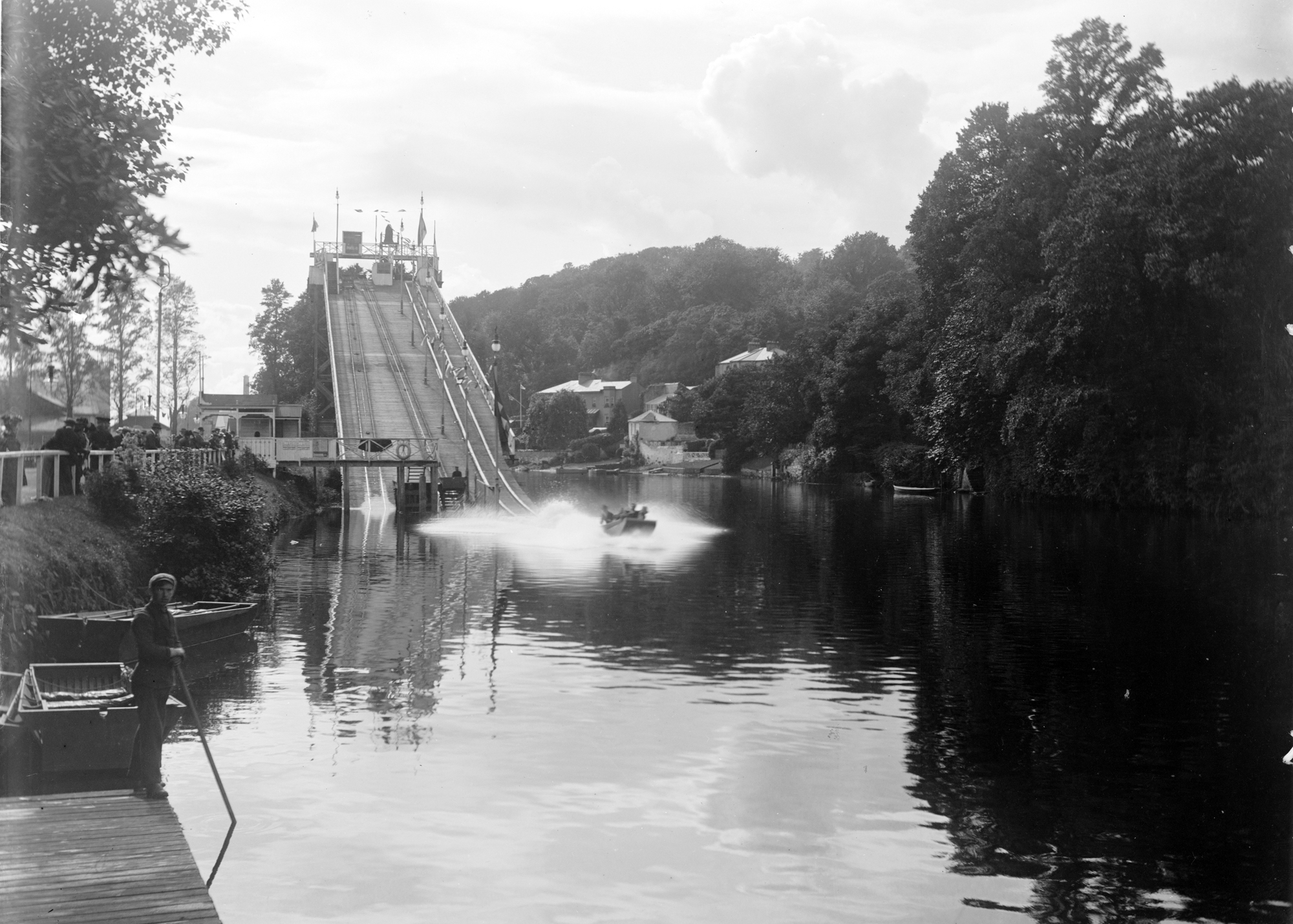 All-action photo for you this morning! This is the water chute erected on the River Lee for the Cork Exhibition in 1902/03. Would love more information on the Cork Exhibition; more exact date; location of the chute (all the usual suspects)... Date: 1 May 1902 - 31 October 1903 (surely sometime during the summer months of 1902 or 1903 given that the trees are in full leaf) NLI Ref.: L_NS_00017